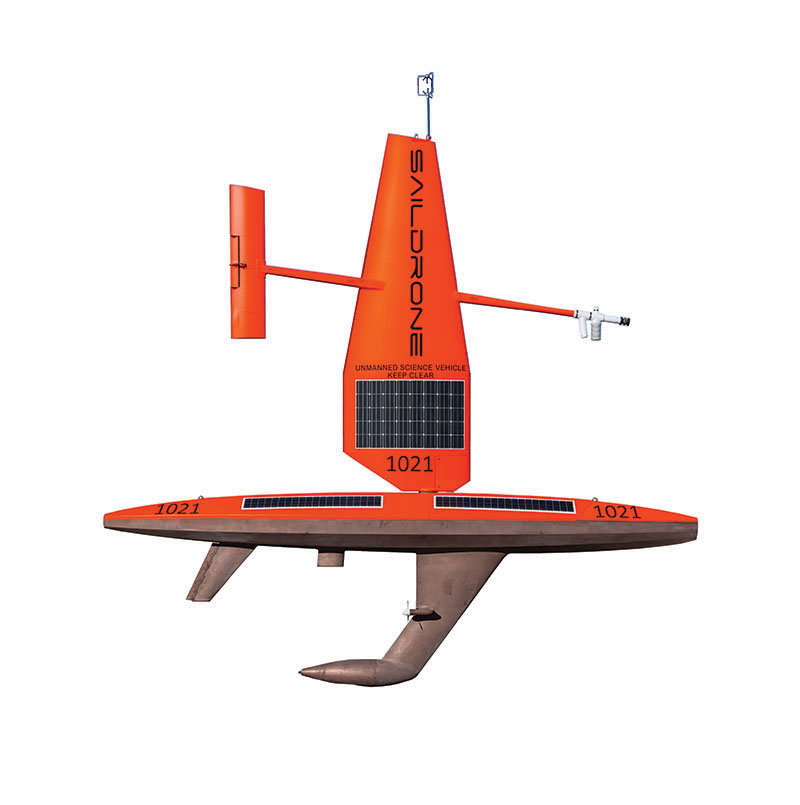 A Saildrone unmanned surface vehicle (USV) is a wind and solar-powered vehicle for collecting ocean data.